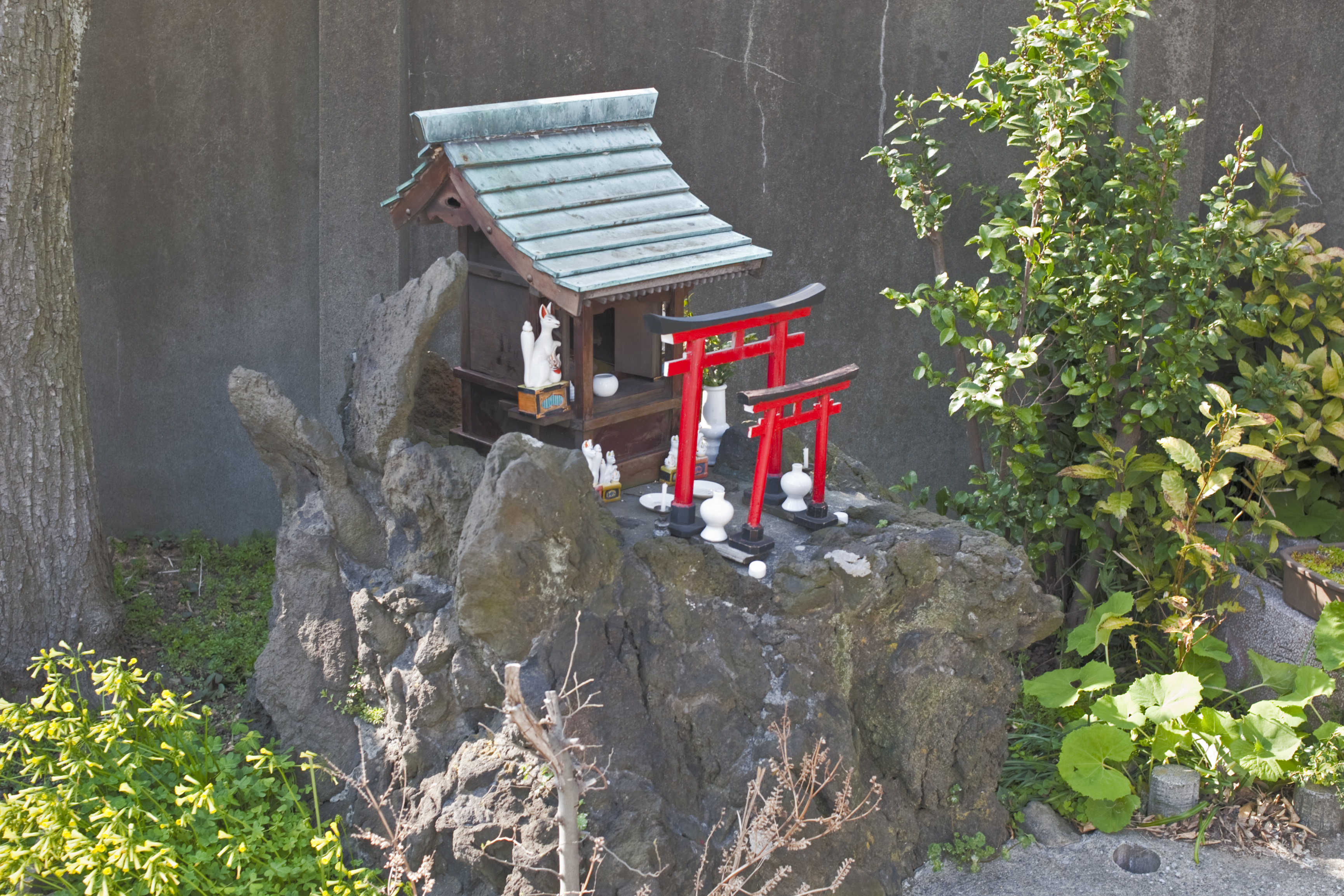 A hokora in Yokohama with some white foxes, symbols of "kami" Inari.